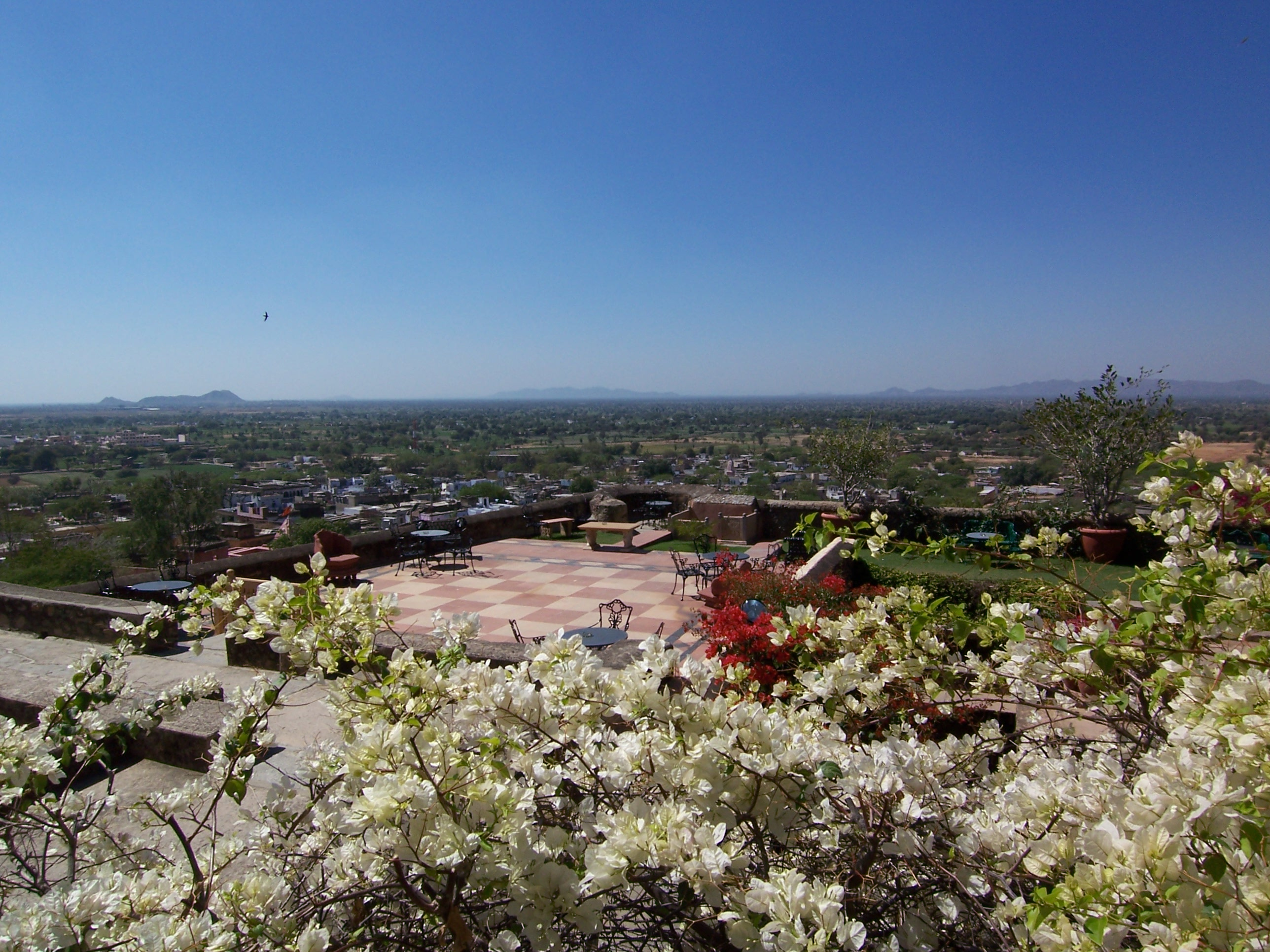 Another view